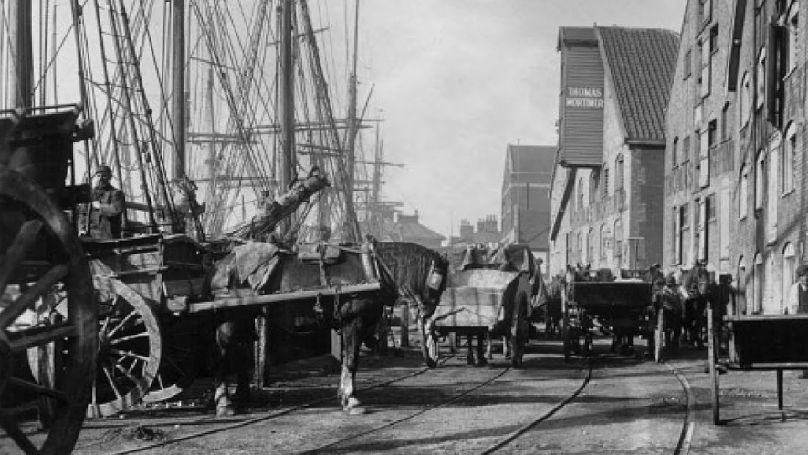 Photograph of Quay in Ipswich, 1890s